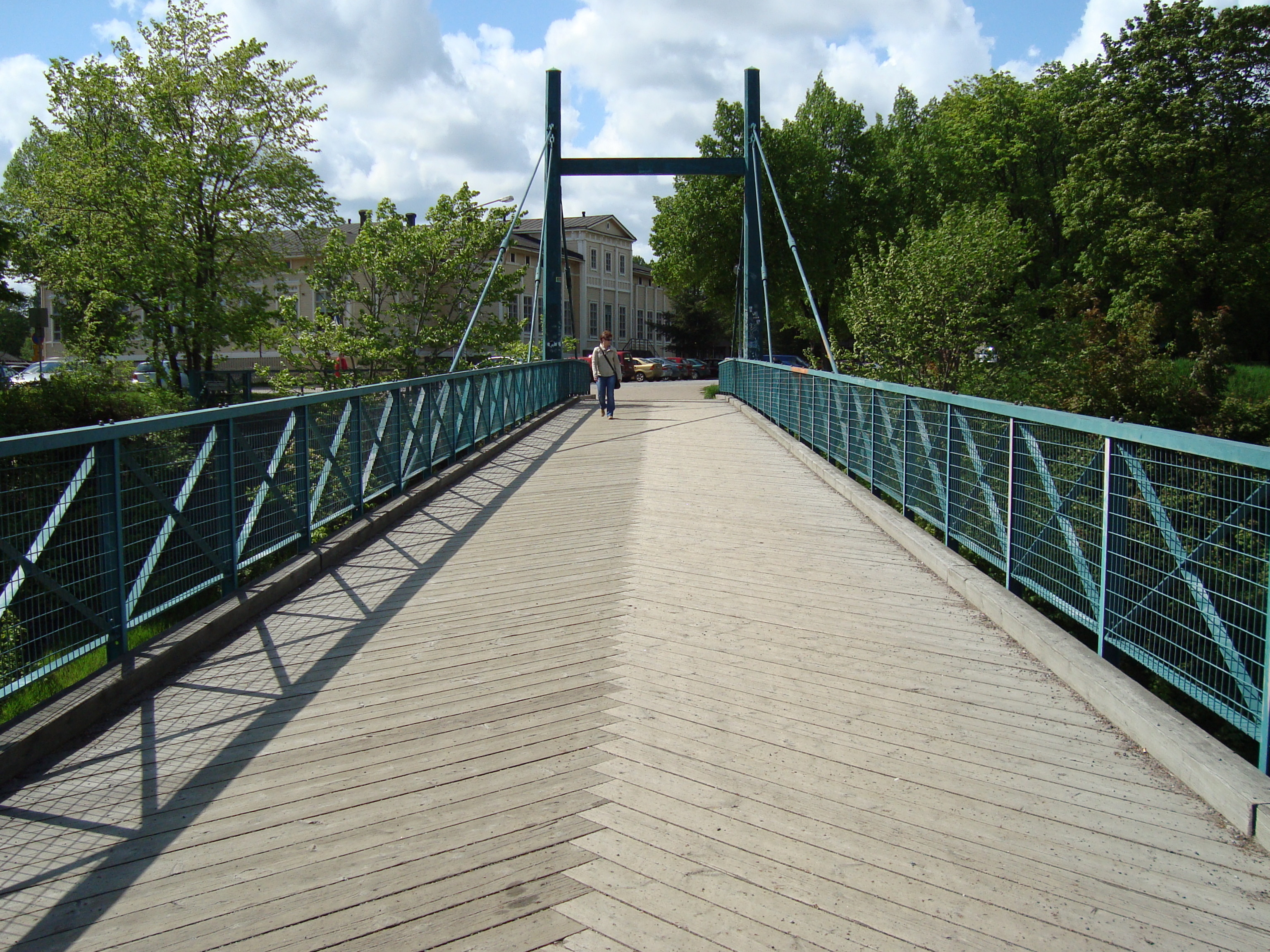 The pedestrian and bicycle cable-stayed bridge in Lappeenranta, Finland